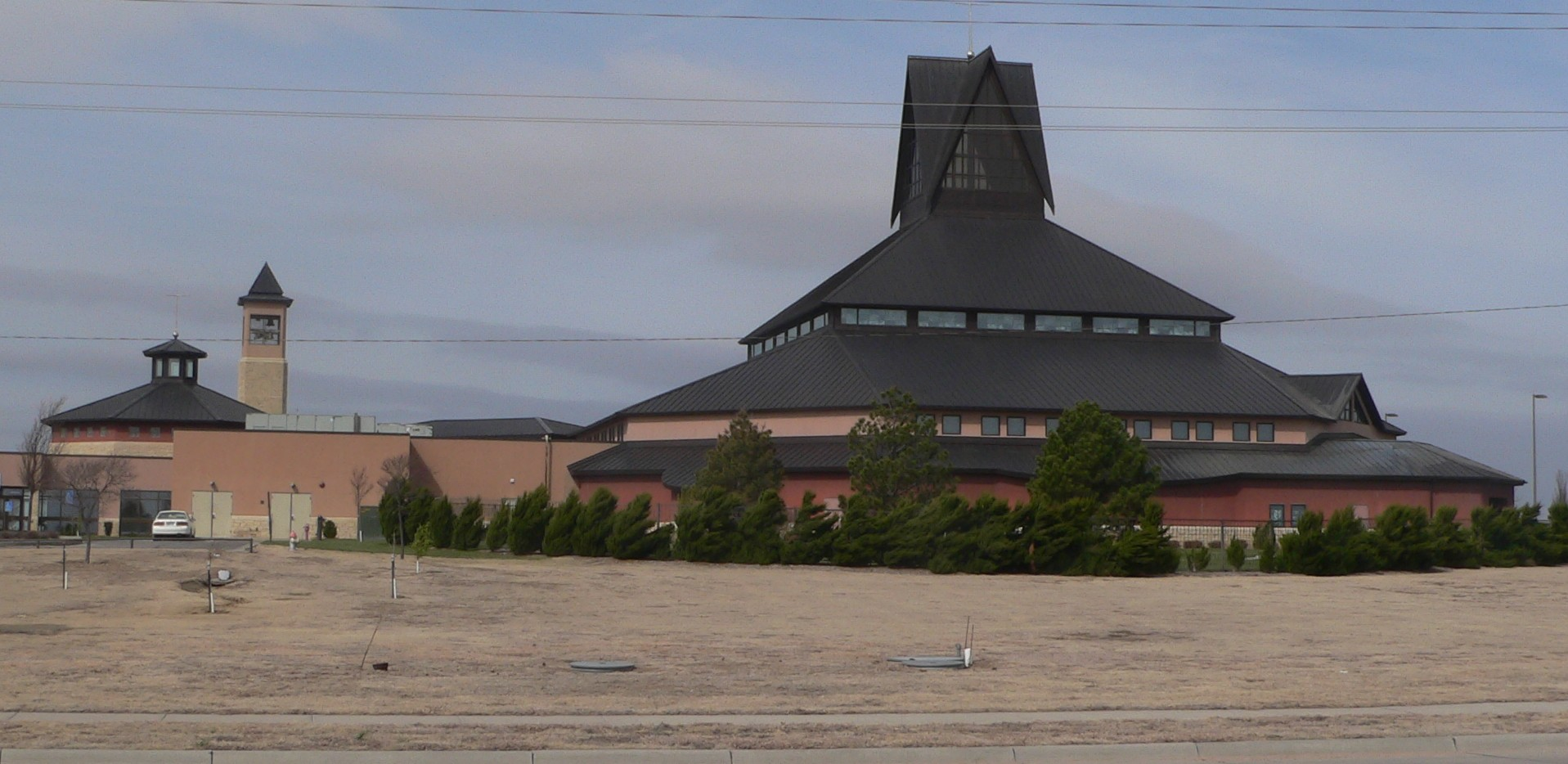 Our Lady of Guadalupe Cathedral, at 3231 N. 14th, at the northern edge of Dodge City, Kansas; seen from the east, from 14th.